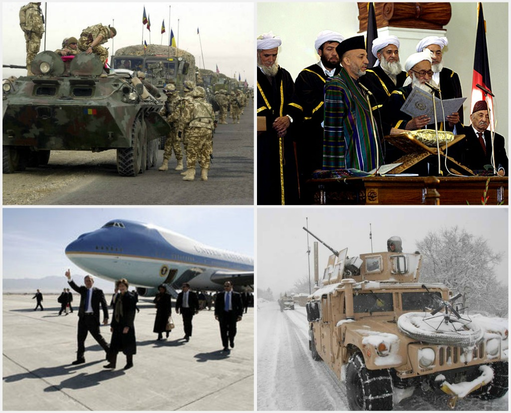 Collage of images displaying the following, from left to right: 1. A Romanian Army TAB-77 Armored Personnel Carrier (APC) leads a convoy of multi-national vehicles from Kandahar Airfield to Kabul, the capital of Afghanistan. The purpose of the convoy is to gather information and to help with a road reconstruction project in Afghanistan during Operation ENDURING FREEDOM. (May 14, 2003, photo by Sgt. Vernell Hall) 2. Chief Justice Shinwani from the Supreme Court of Afghanistan (right) administers the Oath of Office for the Presidential Inauguration to Afghanistan President Hamid Karzai at the Presidential Palace in Kabul, Afghanistan, Dec 7, 2004. Defense Dept. (Photo by U.S. Air Force Master Sgt. James M. Bowman) 3. President George W. Bush gives the thumbs-up after Air Force One landed at Bagram Air Base near Kabul, Afghanistan Wednesday, March 1, 2006. The five-hour surprise visit included a meeting with Afghan President Karzai, a ceremonial ribbon-cutting at the U.S. Embassy, and a visit to the troops at Bagram. (Photo by Eric Draper) 4. U.S. Army Sgt. Joseph Chmielewski, from Bravo Company, Division Special Troops Battalion, Task Force Gladius, pulls security during a key leader engagement at the Jalokheyl village on main supply route Vermont in the Kapisa province of Afghanistan Feb. 5, 2008. (U.S. Army photo by Sgt. Johnny R. Aragon)